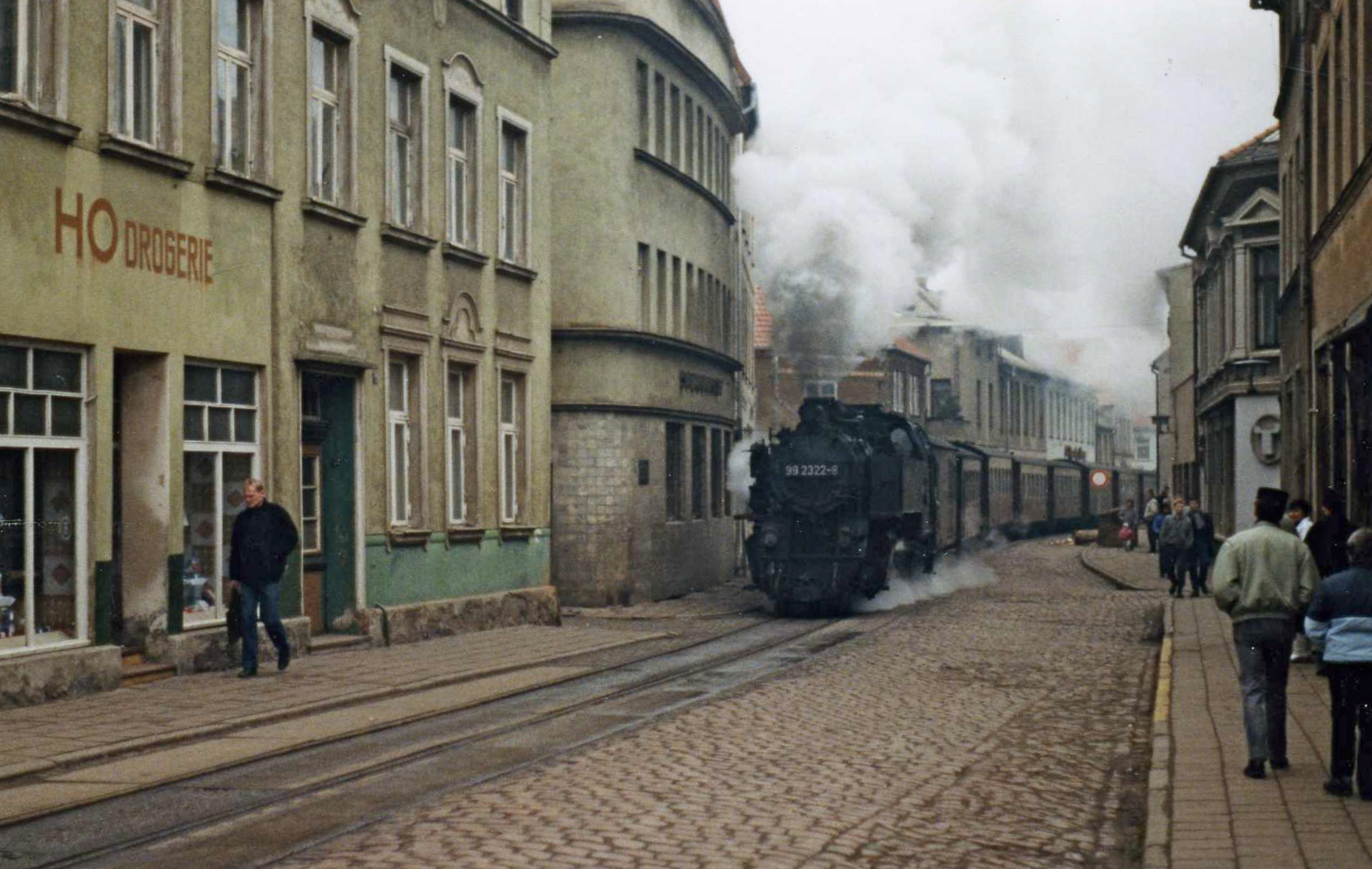 January 1990. Print on Kodak 200 or 400 film with Pentax K1000 camera.